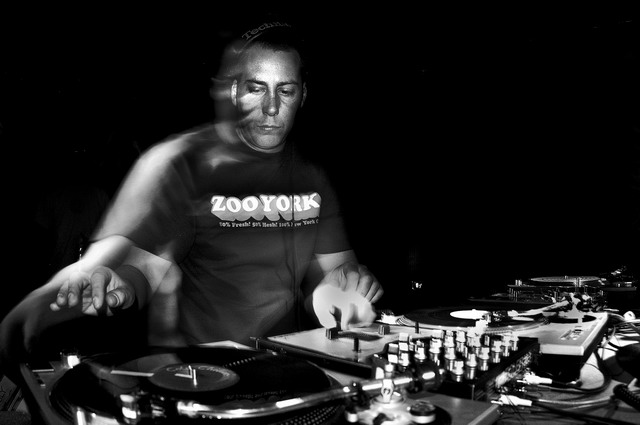 British DJ Danny Breaks performing in 2005 (probably at the Gala Hala club in the Metelkova center, Ljubljana, Slovenia [1])